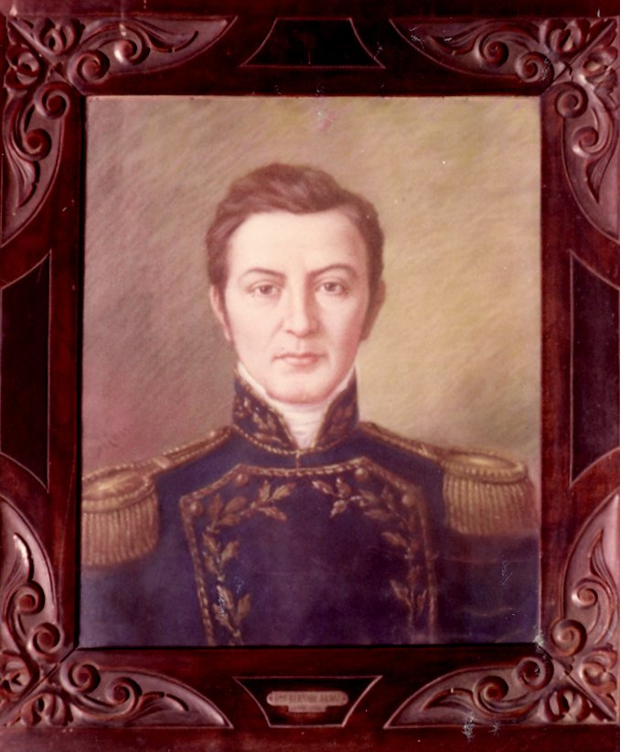 Portrait by the Italian artist Honorio Mossi of Bernabé Aráoz (1776 - 24 March 1824), Argentine soldier and politician.